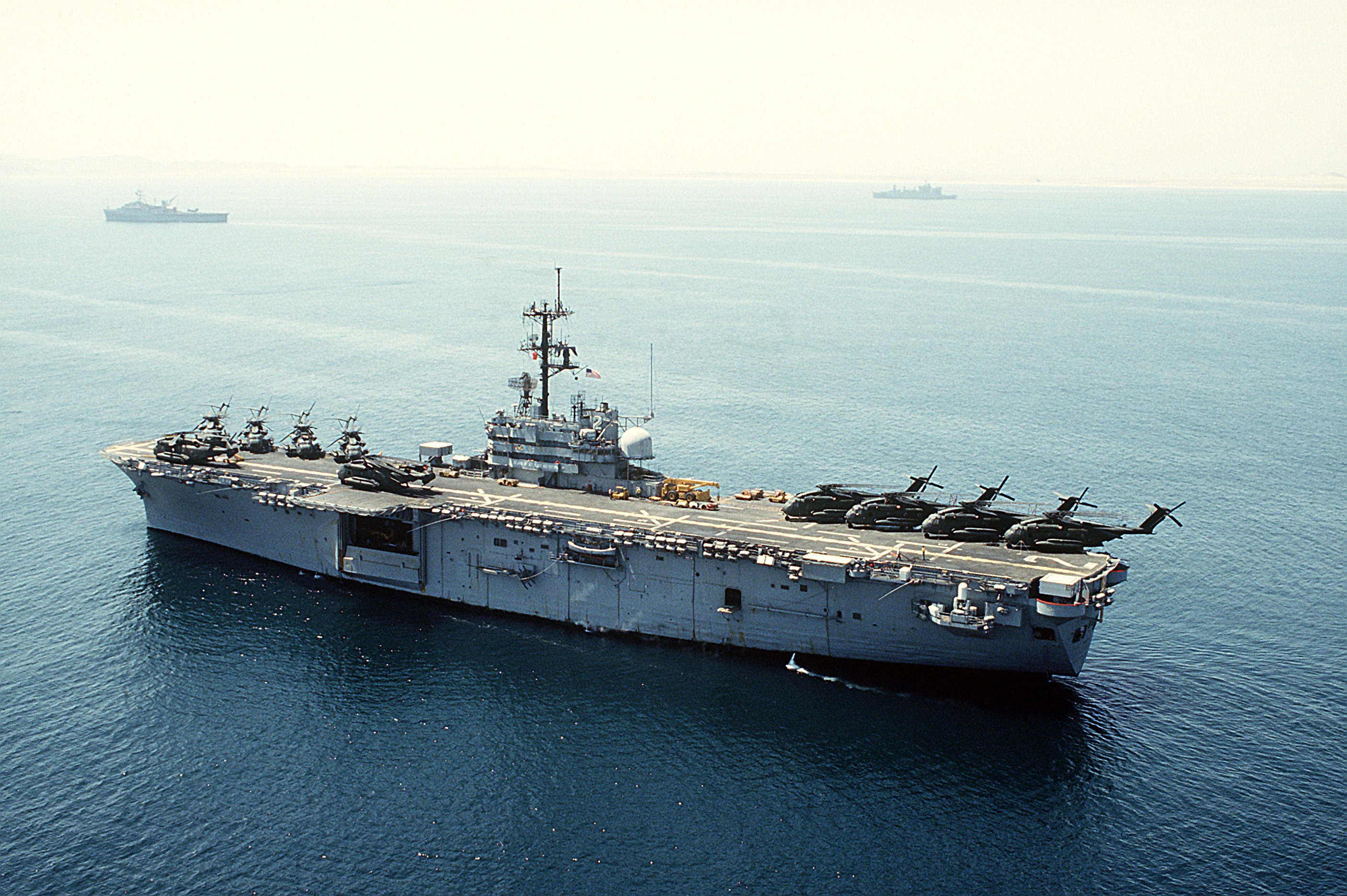 Iwo Jima (LPH-2), various helicopters line the deck of the amphibious assault ship USS IWO JIMA (LPH-2) during Operation Desert Shield.